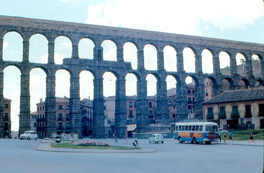 The Romans built this aqueduct some time around 100 A.D.. It is 728 m (2,392 ft) long and 28 m (92 ft) above street level. It still functions as part of the city's water supply, though water is now carried in cast iron pipes in the aqueduct's channels..